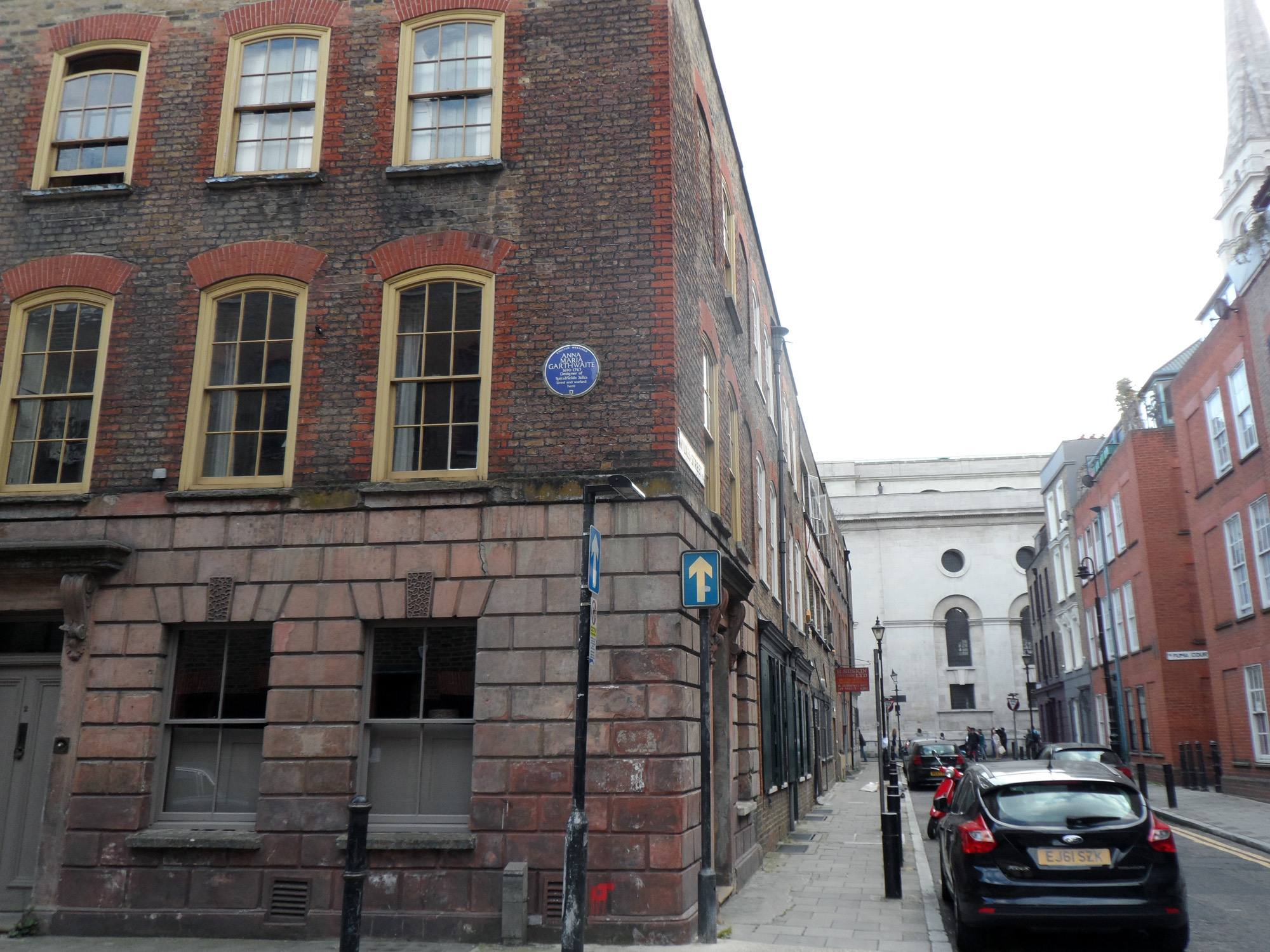 Anna Maria Garthwaite 1690-1763 Designer of Spitalfields Silks lived and worked here